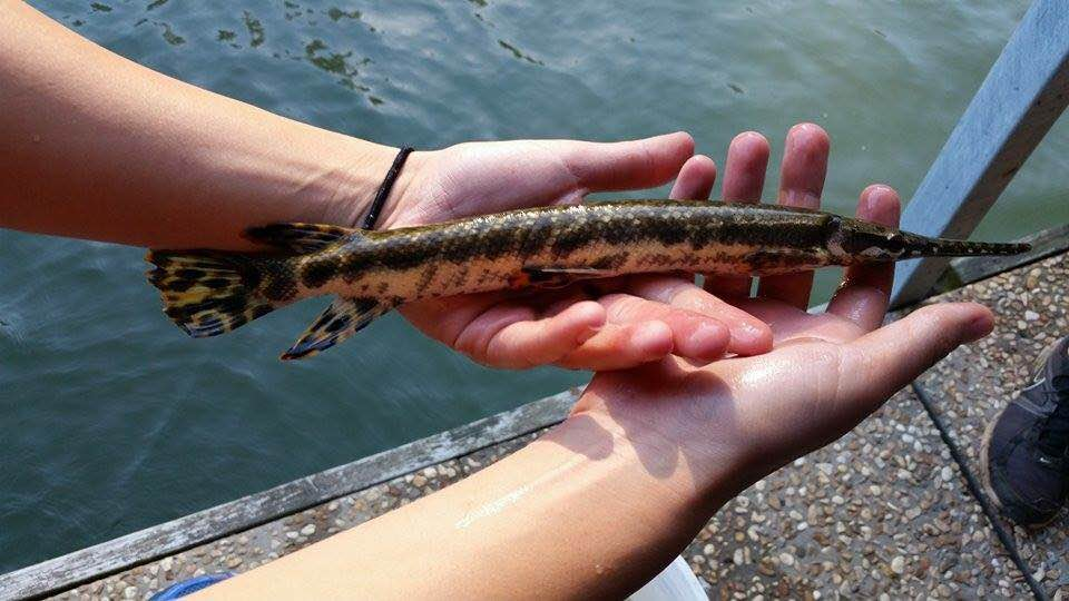 Spotted Gar found in Kentucky Lake